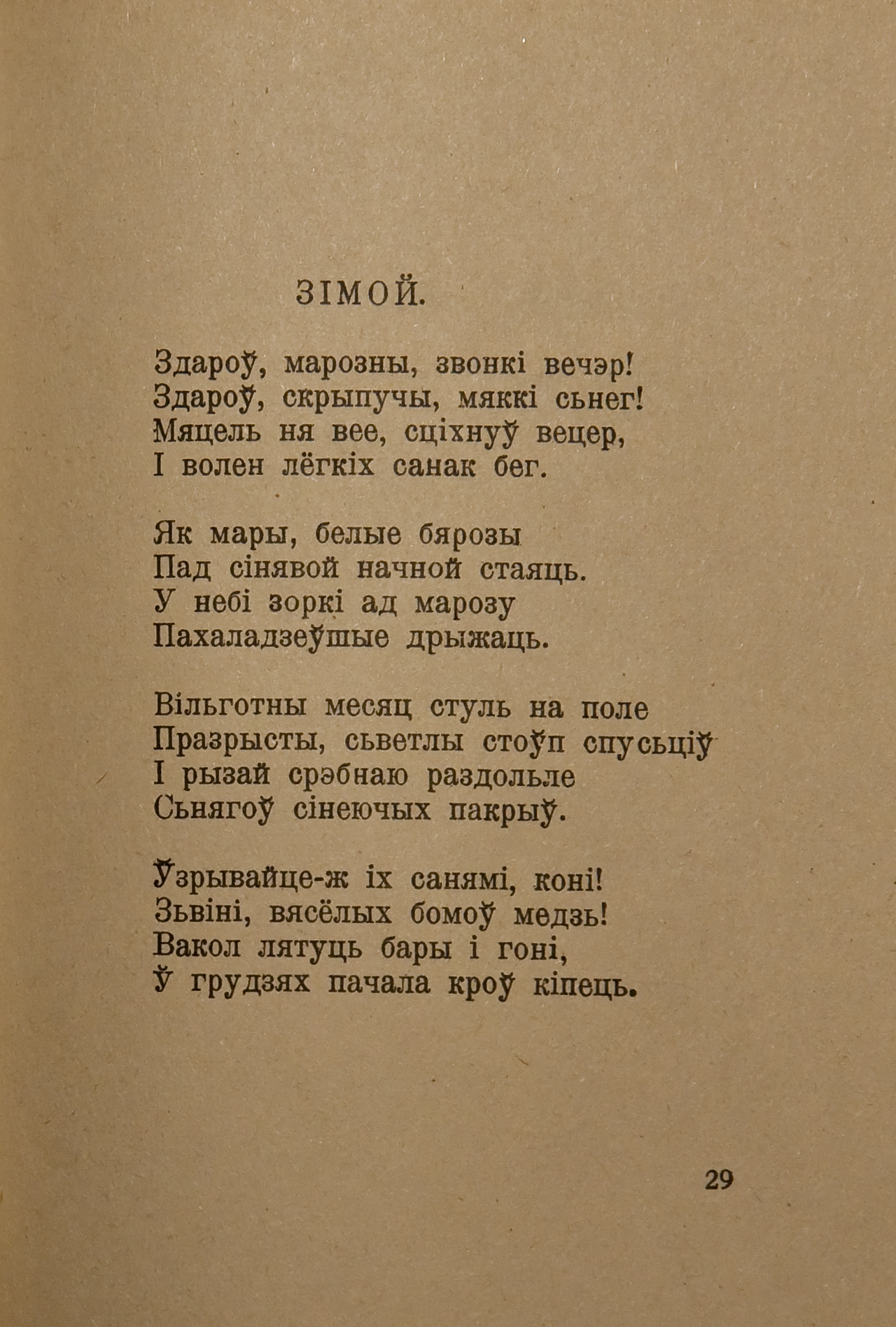 A photo of page from a reprinted book by Maksim Bahdanovič, originally published in 1914. Беларуская (тарашкевіца): Фатаздымак старонкі зь вершам «Зімой» Максіма Багдановіча з факсымільнага выданьня 1985 году зборніка твораў «Вянок», выдадзенага ў 1914 годзе.